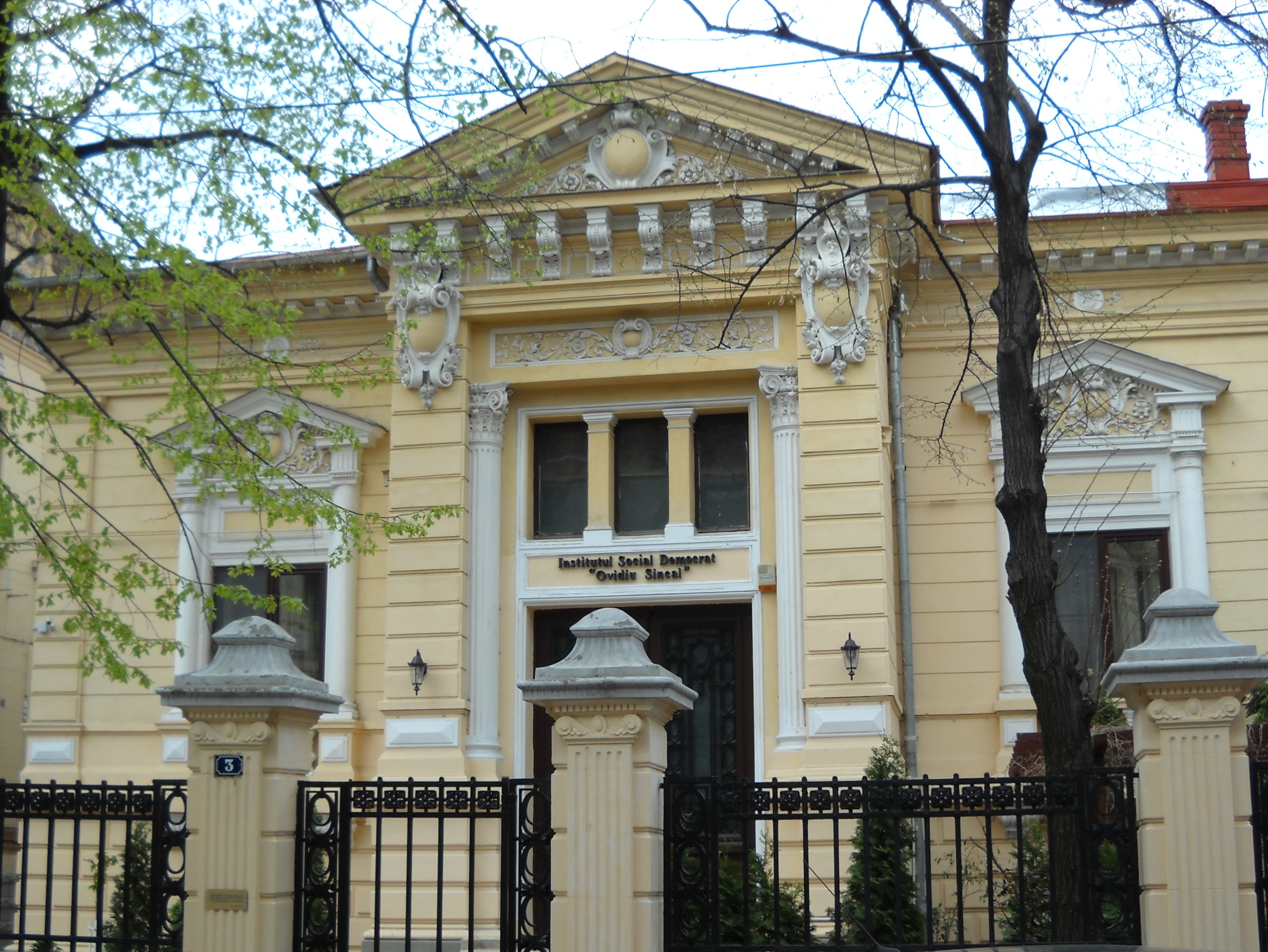 ISD building